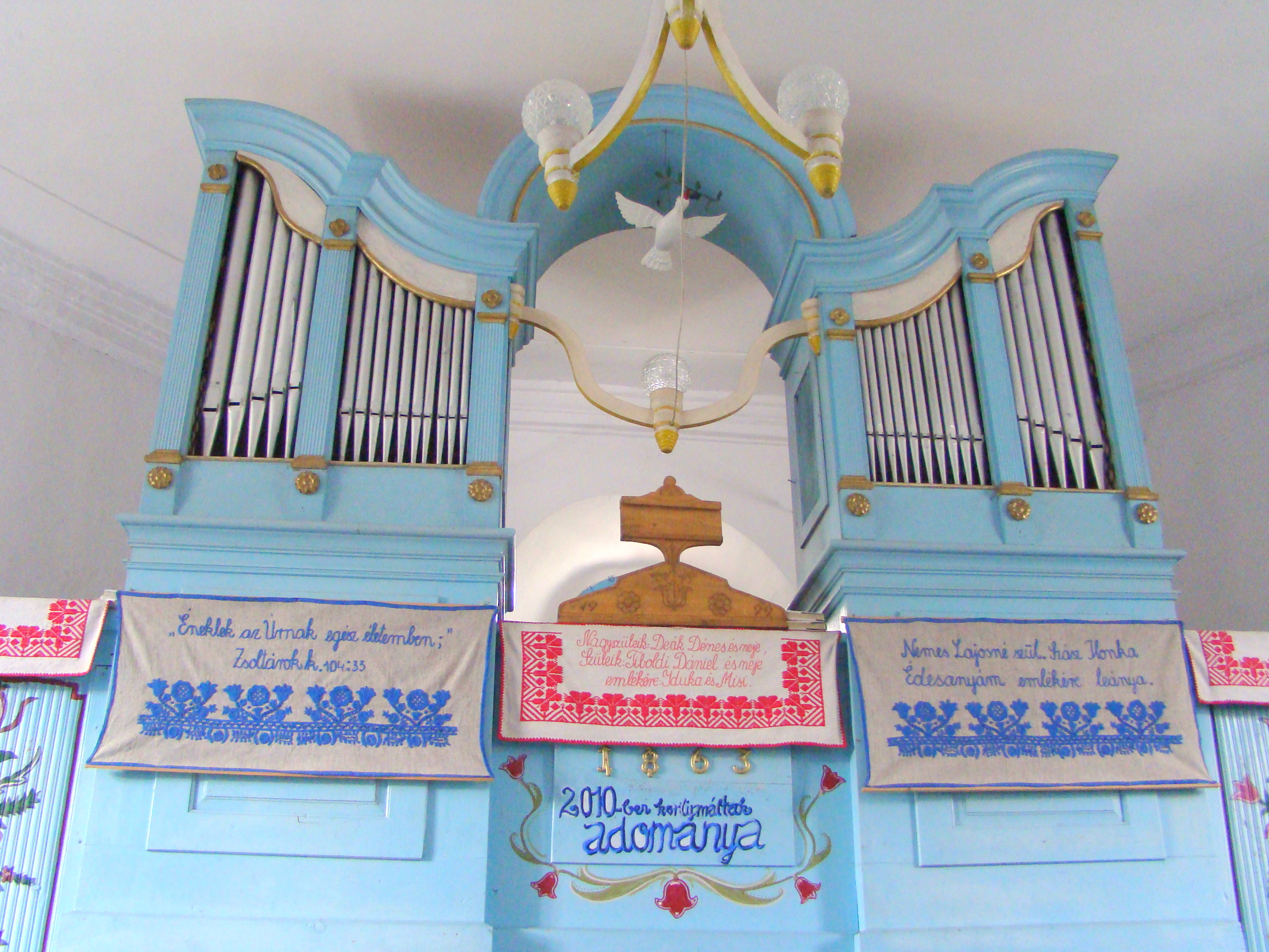 Unitarian church in Șimonești, Harghita county, Romania